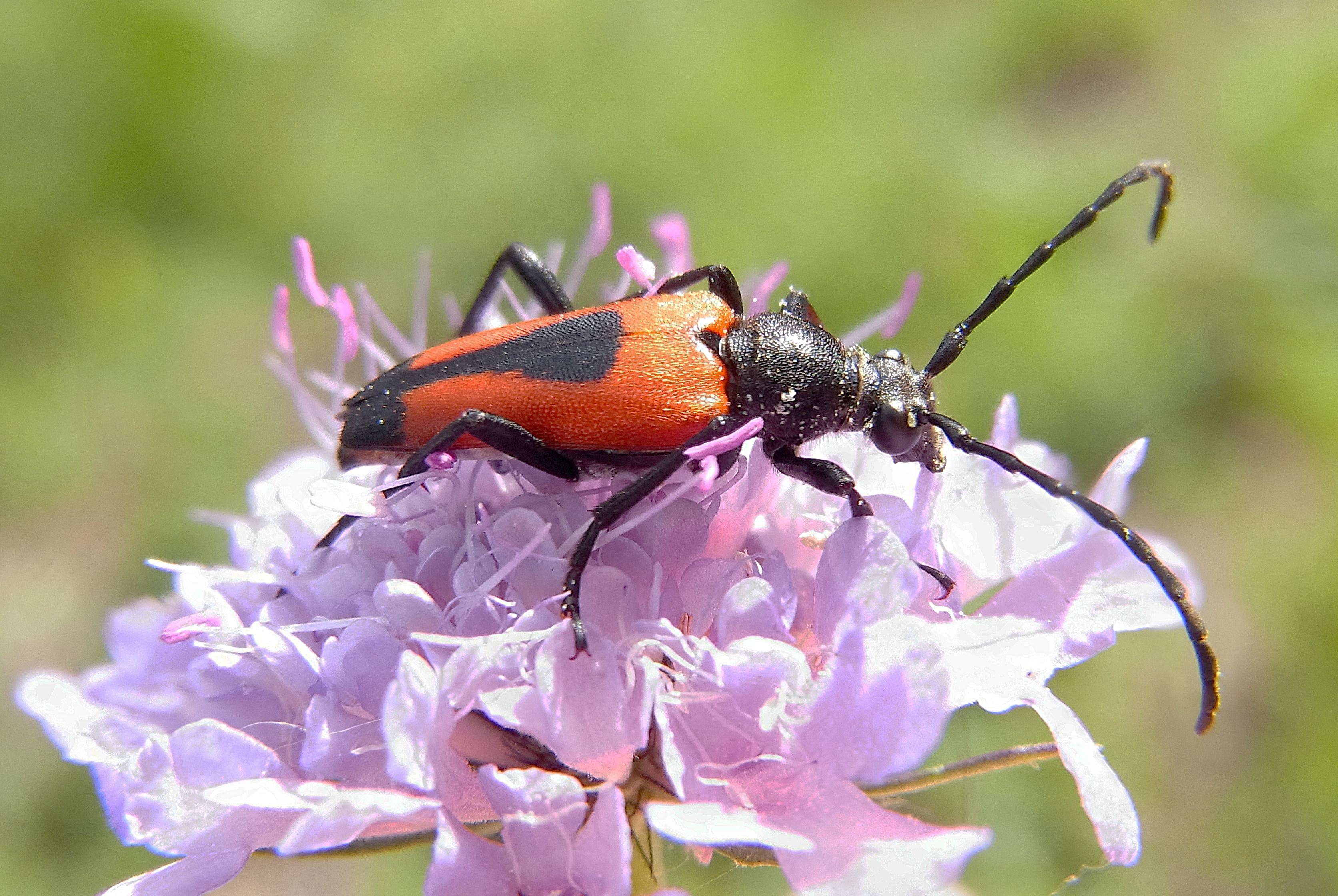 Stictoleptura cordigera from France Monts de l'Espinouse at 2011-06-11